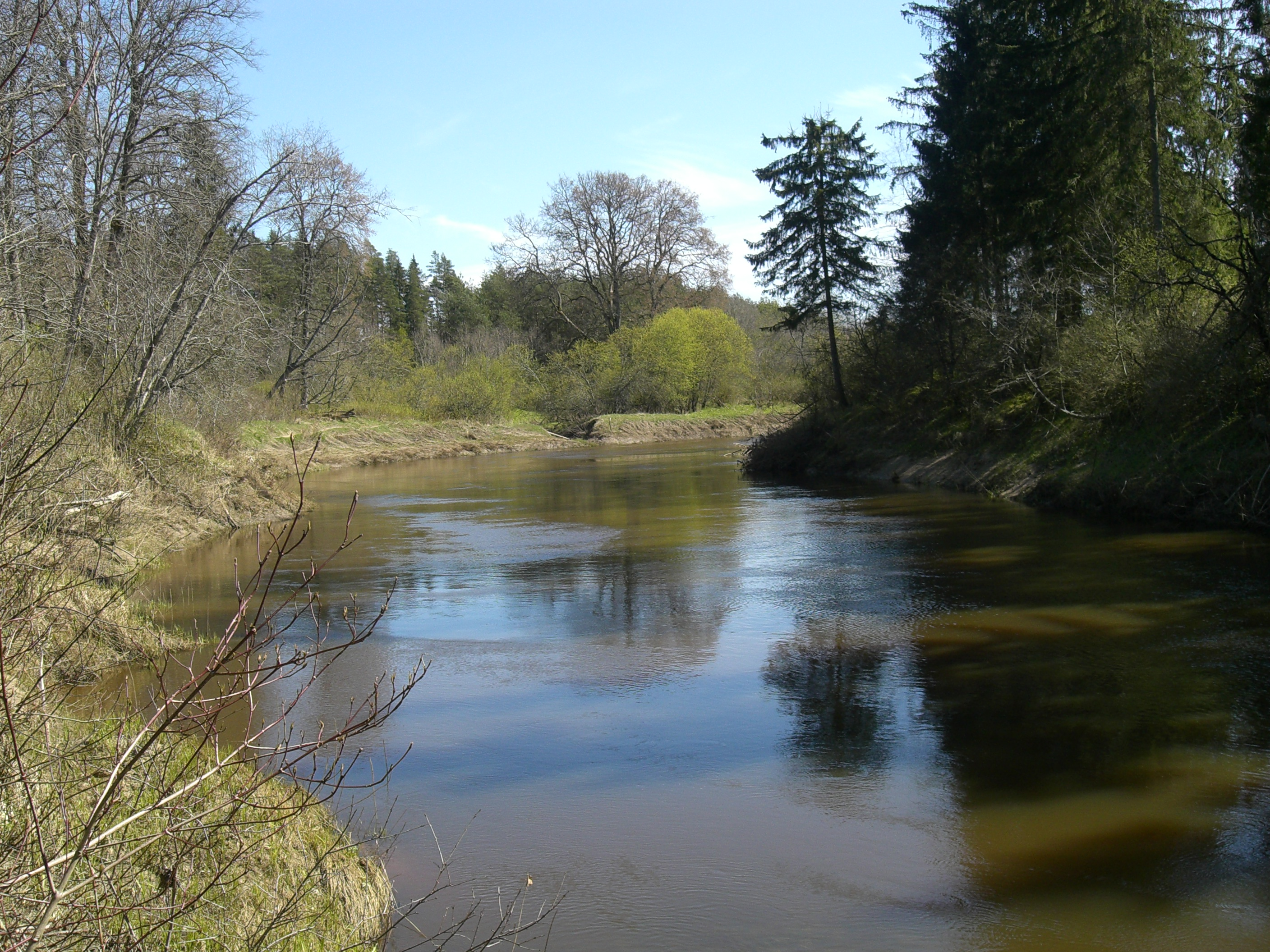 Abava River near monument Māras kambari in Latvia.